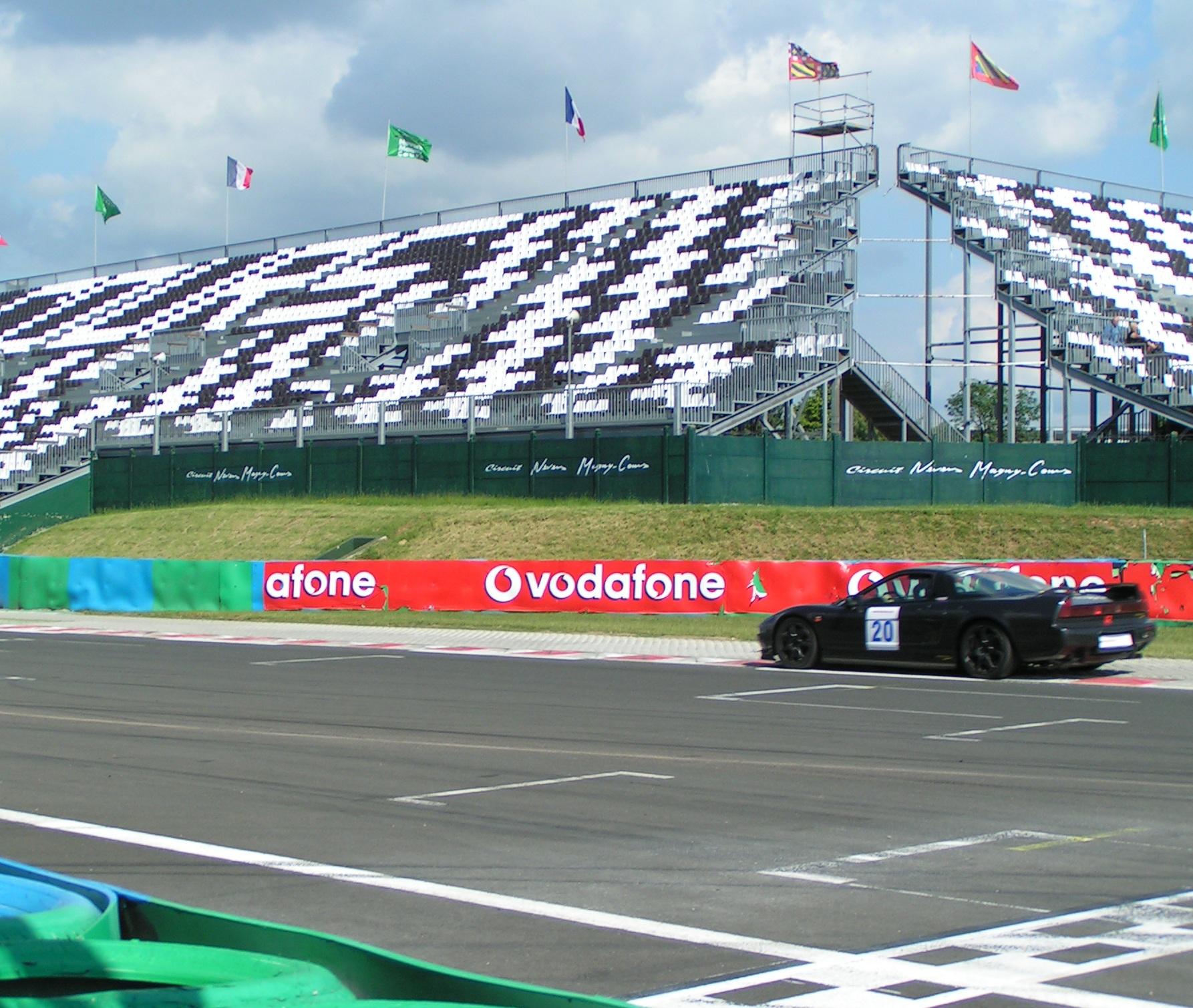 Finish line at french racetrack Nevers Magny-Cours with main grandstands